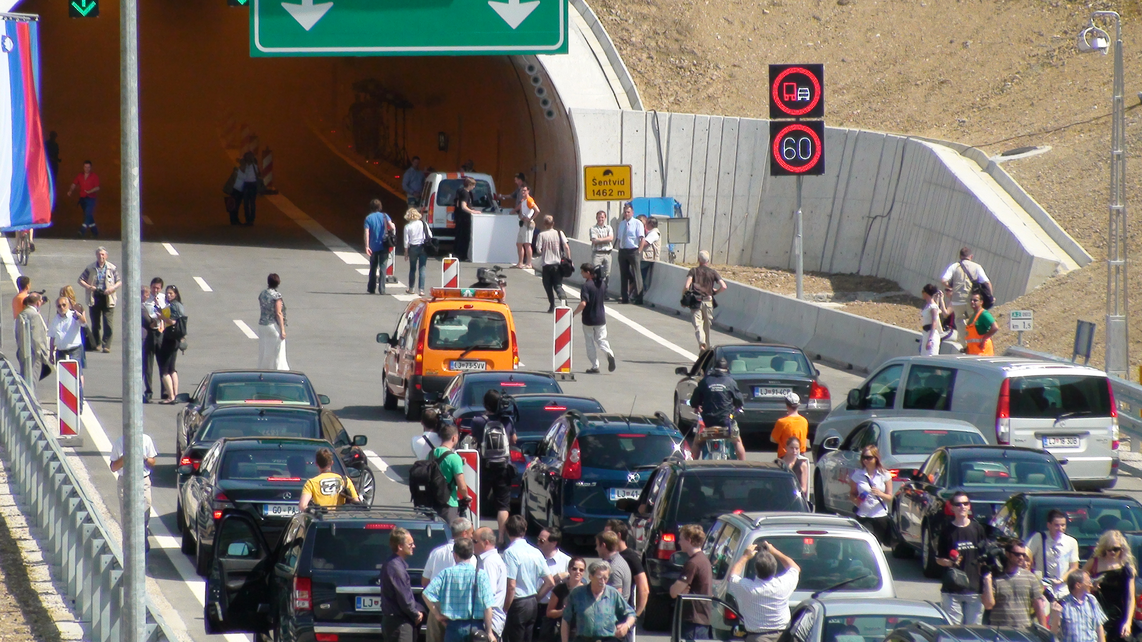 The Šentvid tunnel right before the opening